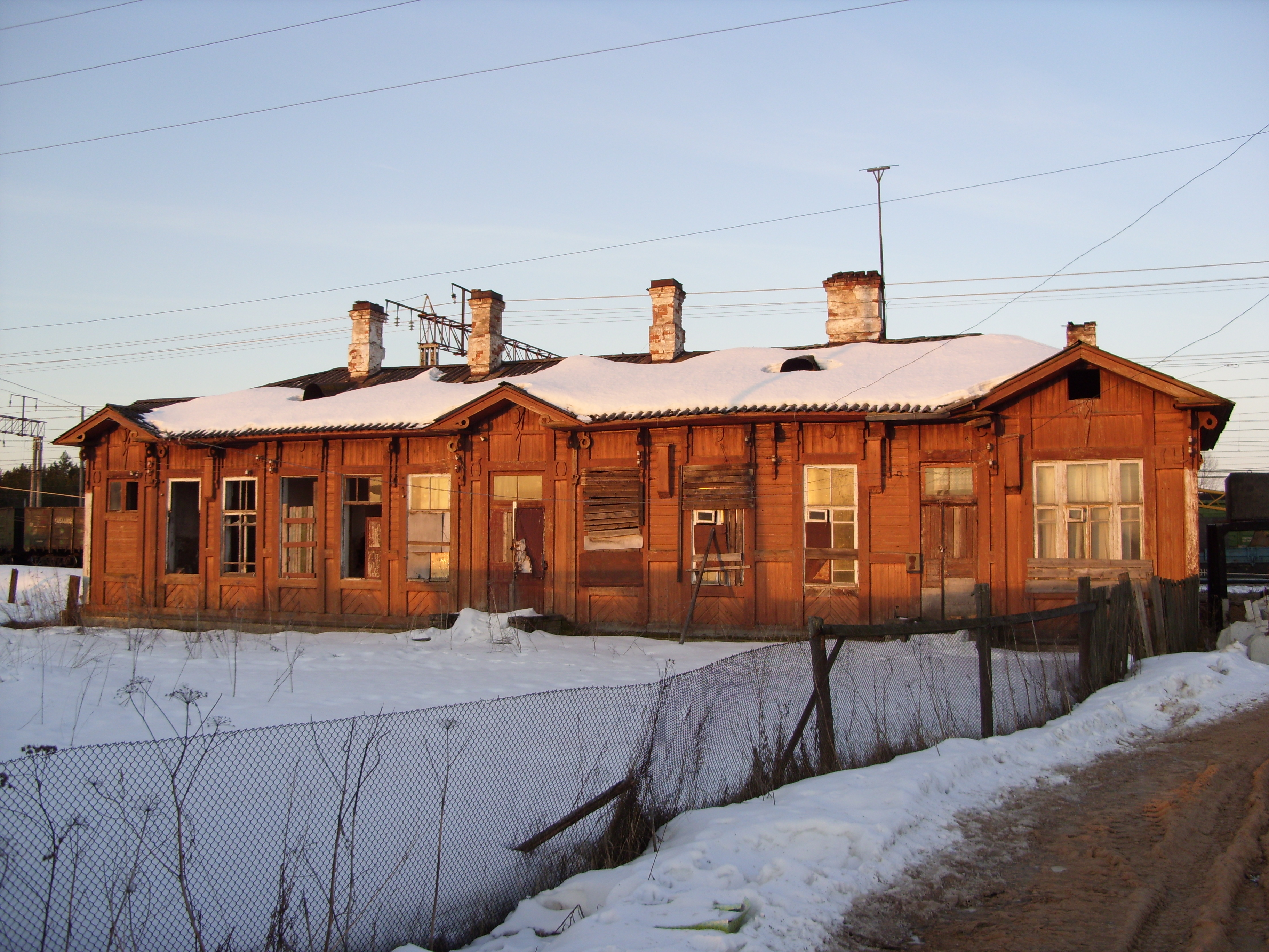 Valja Peterburgo-Vologodskoi